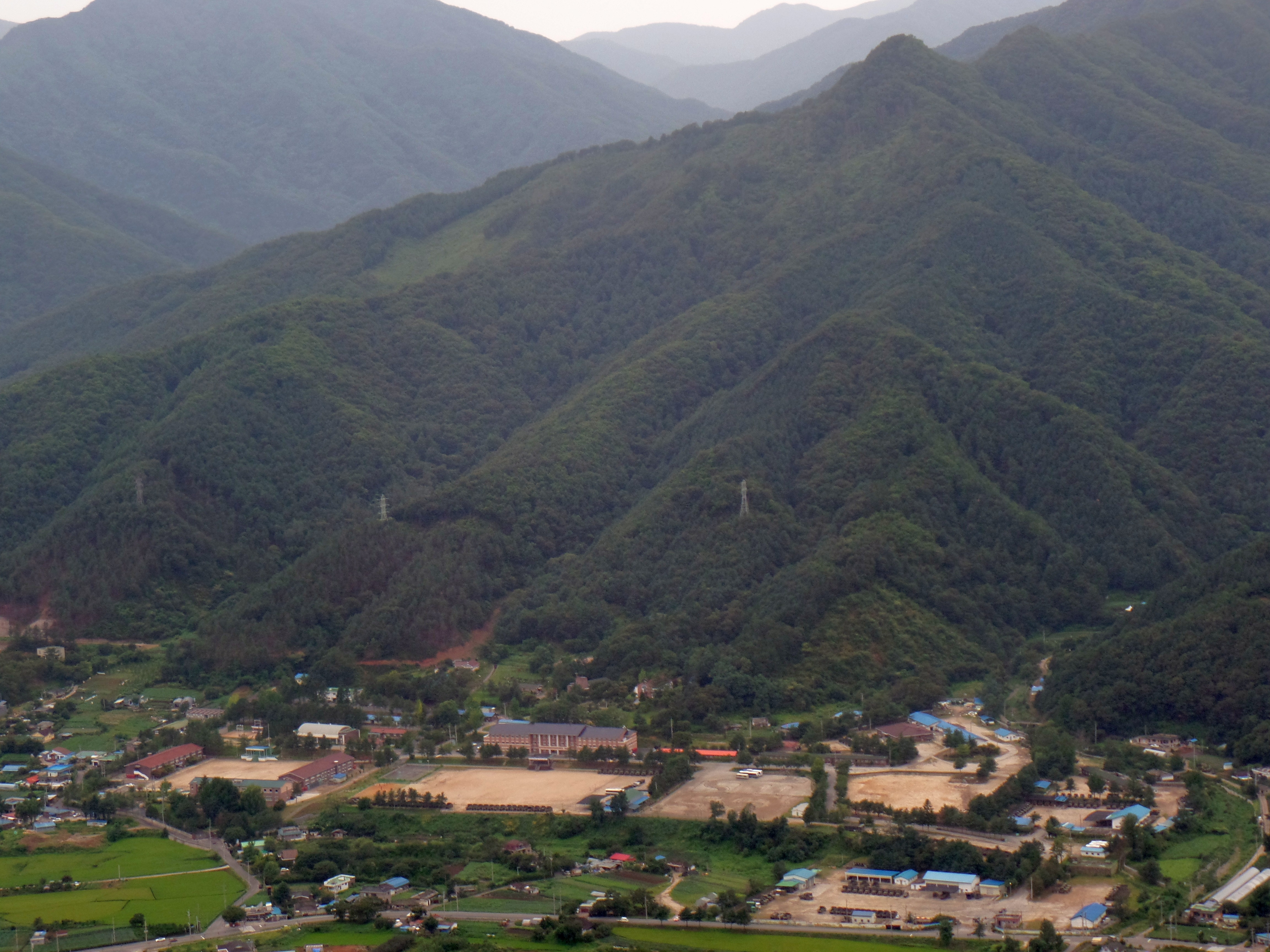 Scenery of Republic of Korea Army 3rd Field Transportation Training Group